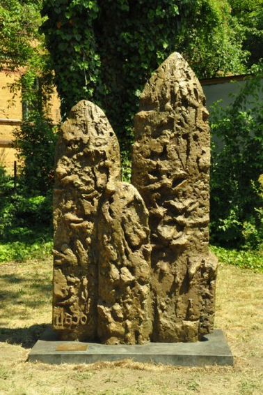 Khojali memorial in Berlin